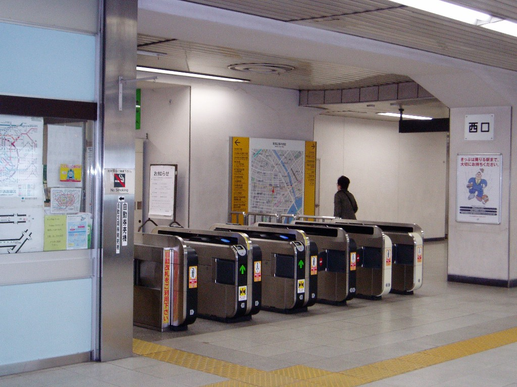 JR East Bakurocho Station Gate